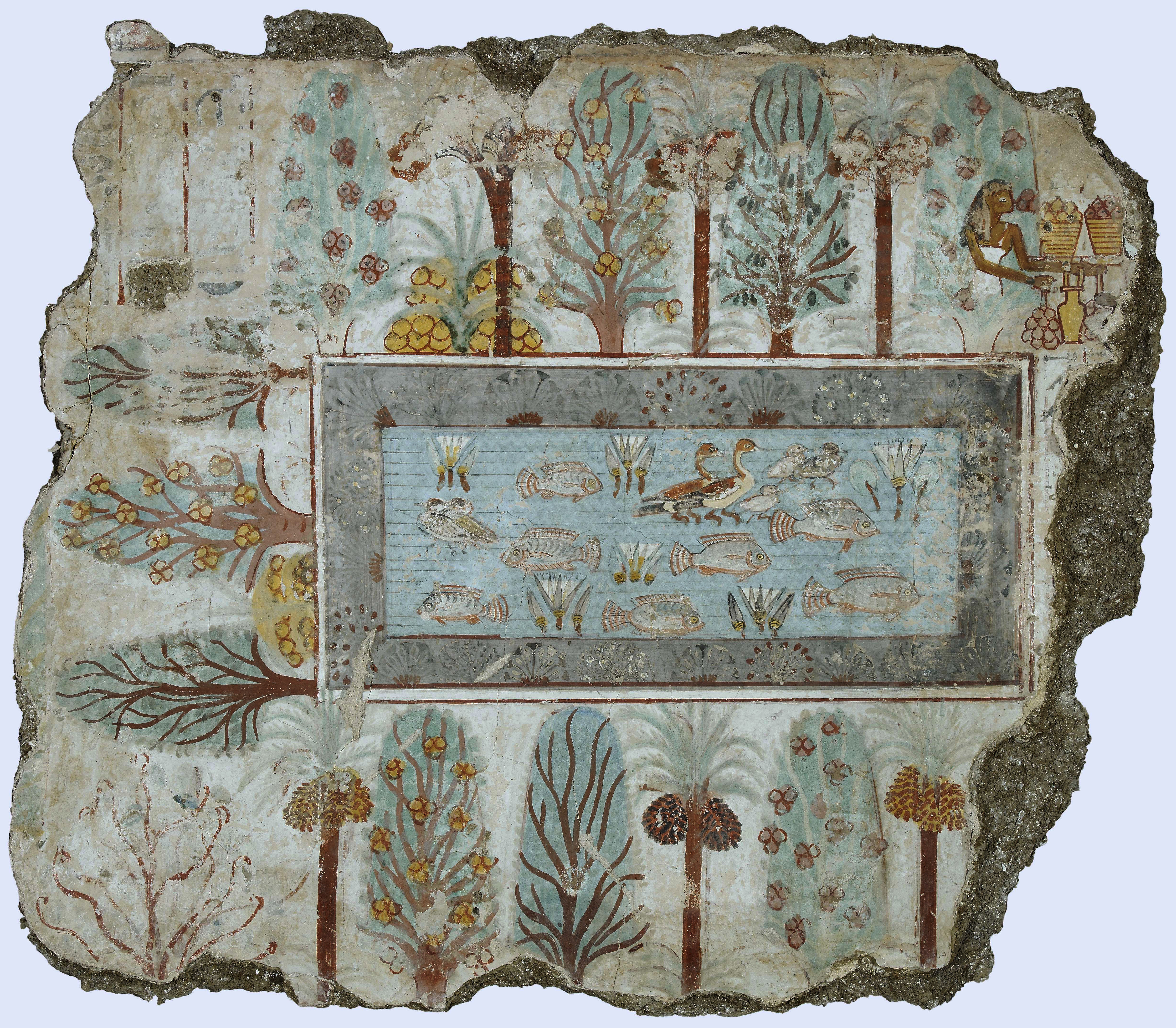 The Garden, fresco from Nebamun tomb, originally in Thebes, Egypt.